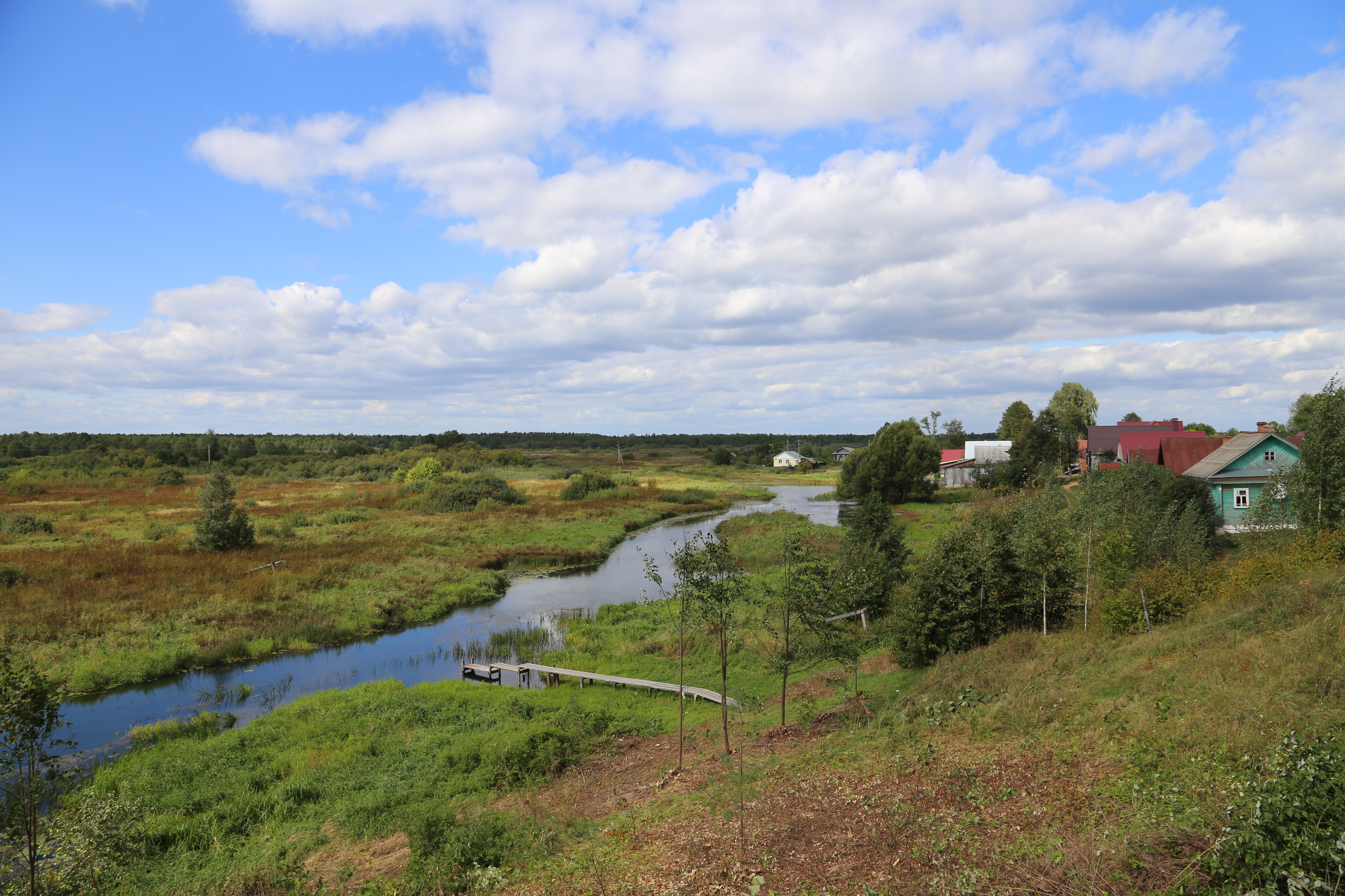 Lukh River in Lukh Village, Ivanovo Oblast